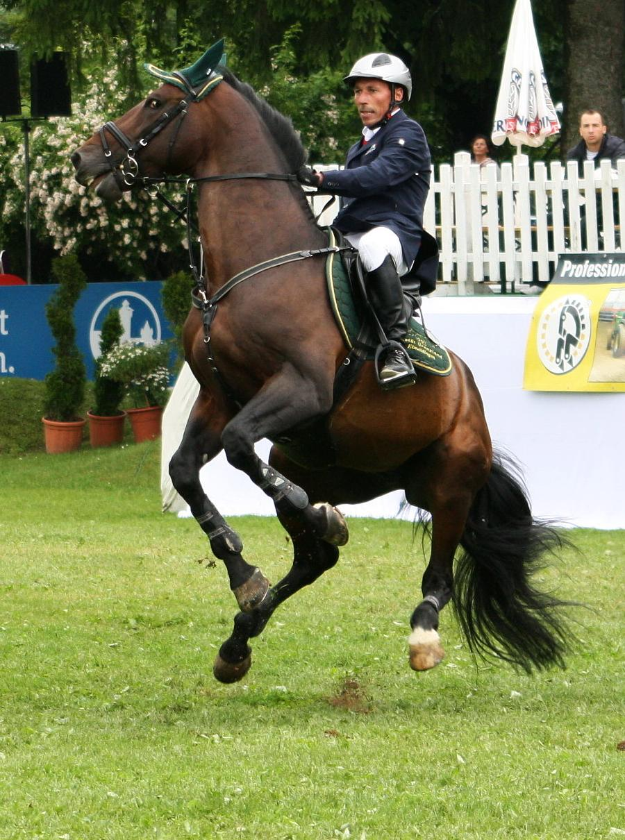 German rider Hans-Dieter Dreher with horse Magnus Romeo.